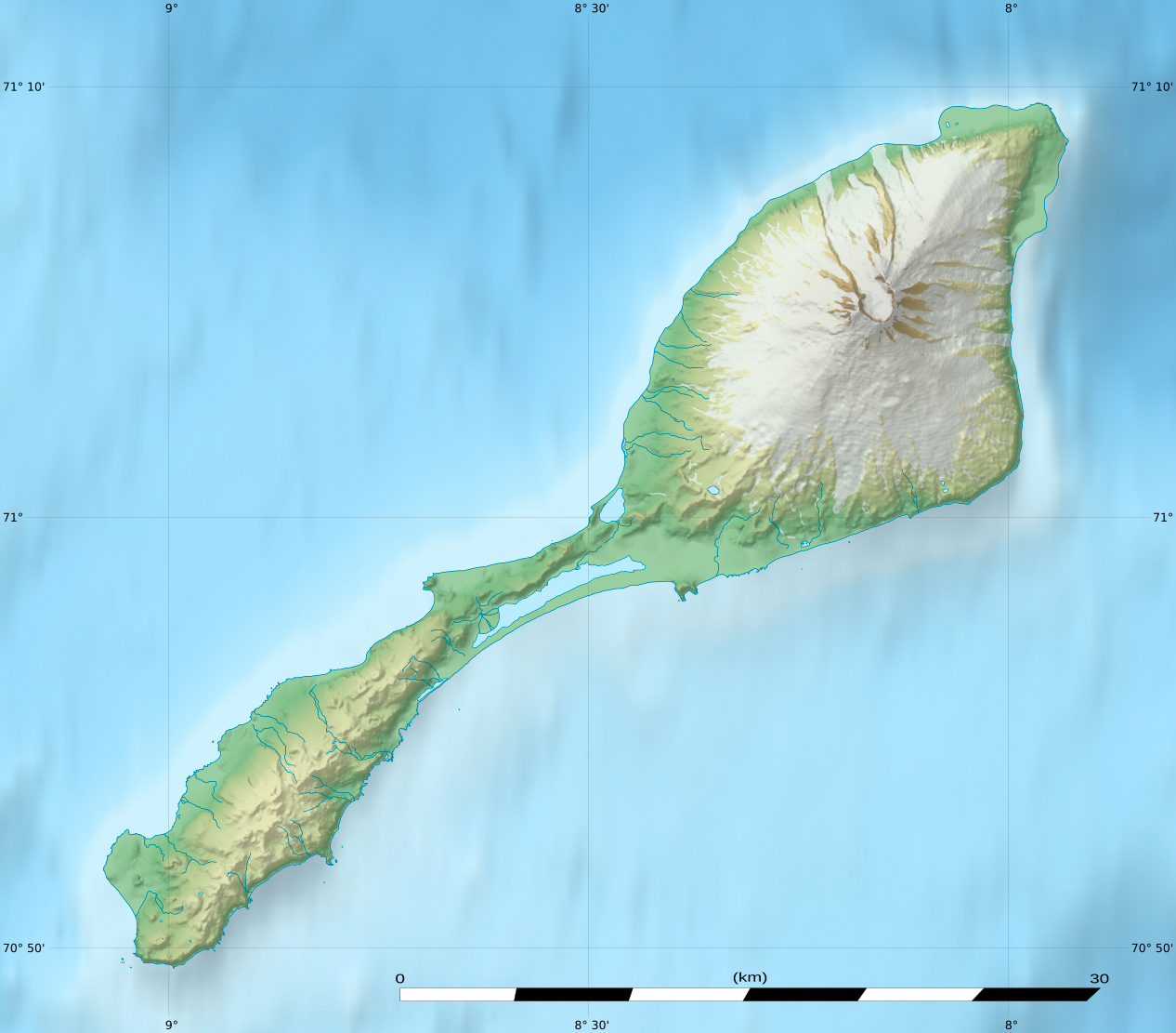 Blank relief location map of Jan Mayen island